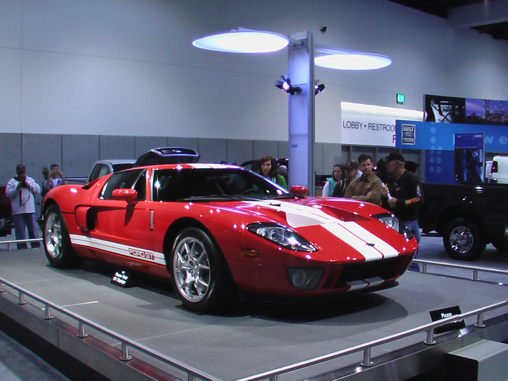 Ford GT at San Diego Auto Show, 2006